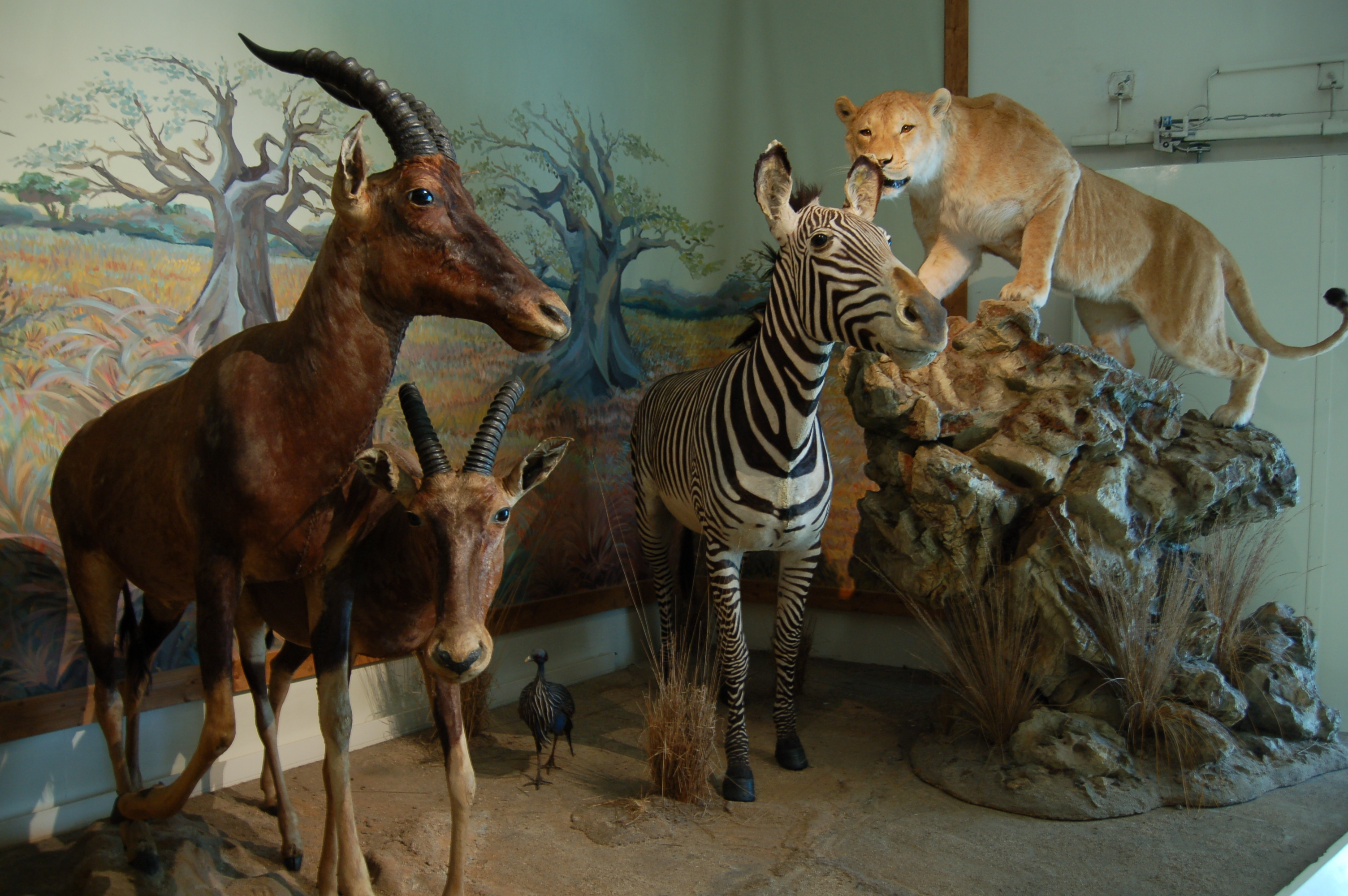 Mounted animals in the Bourges Museum